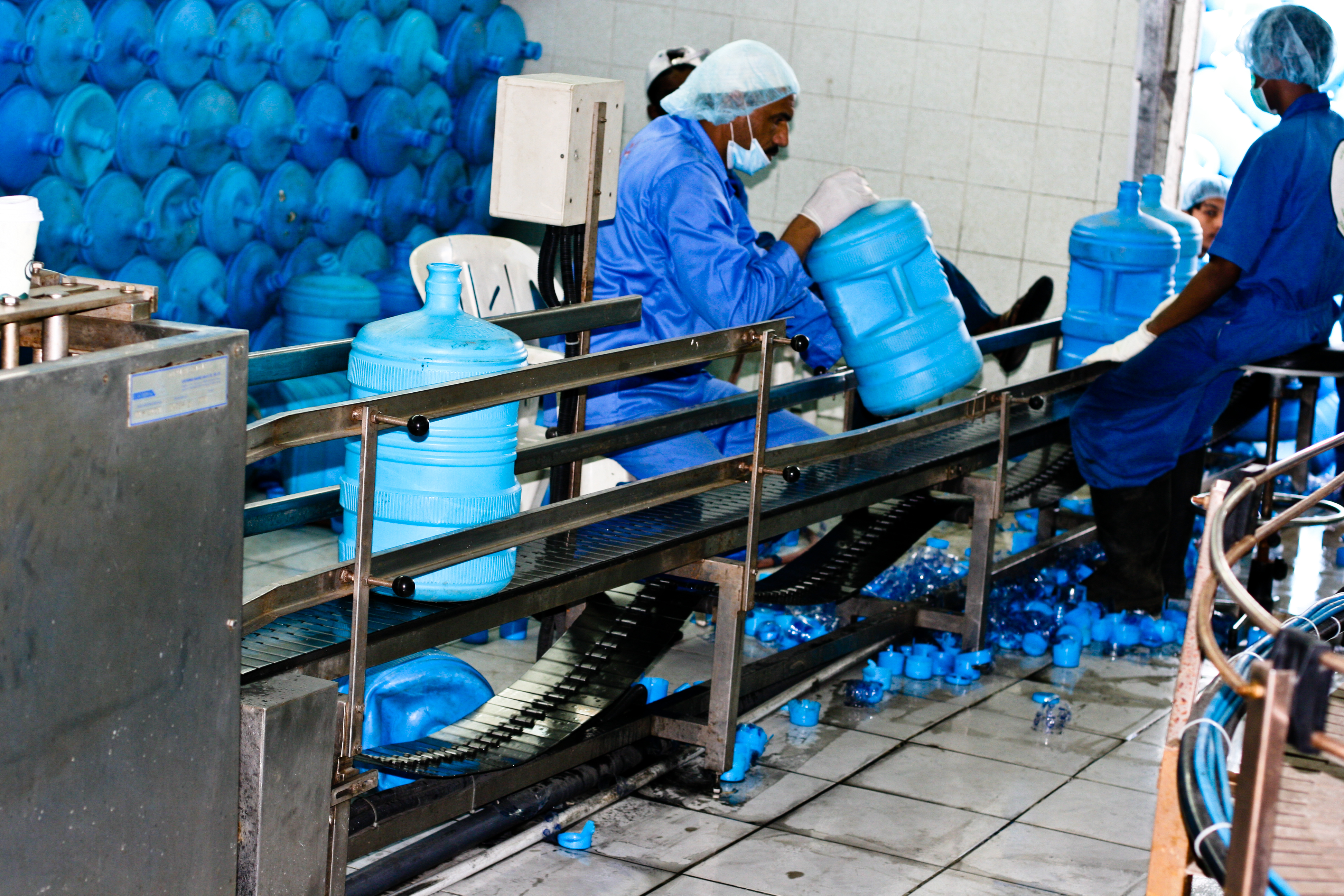 Workers inspect bottles to be filled with Zamzam water at the Zamzam United bottling facility. Photo by Mohammed Adow